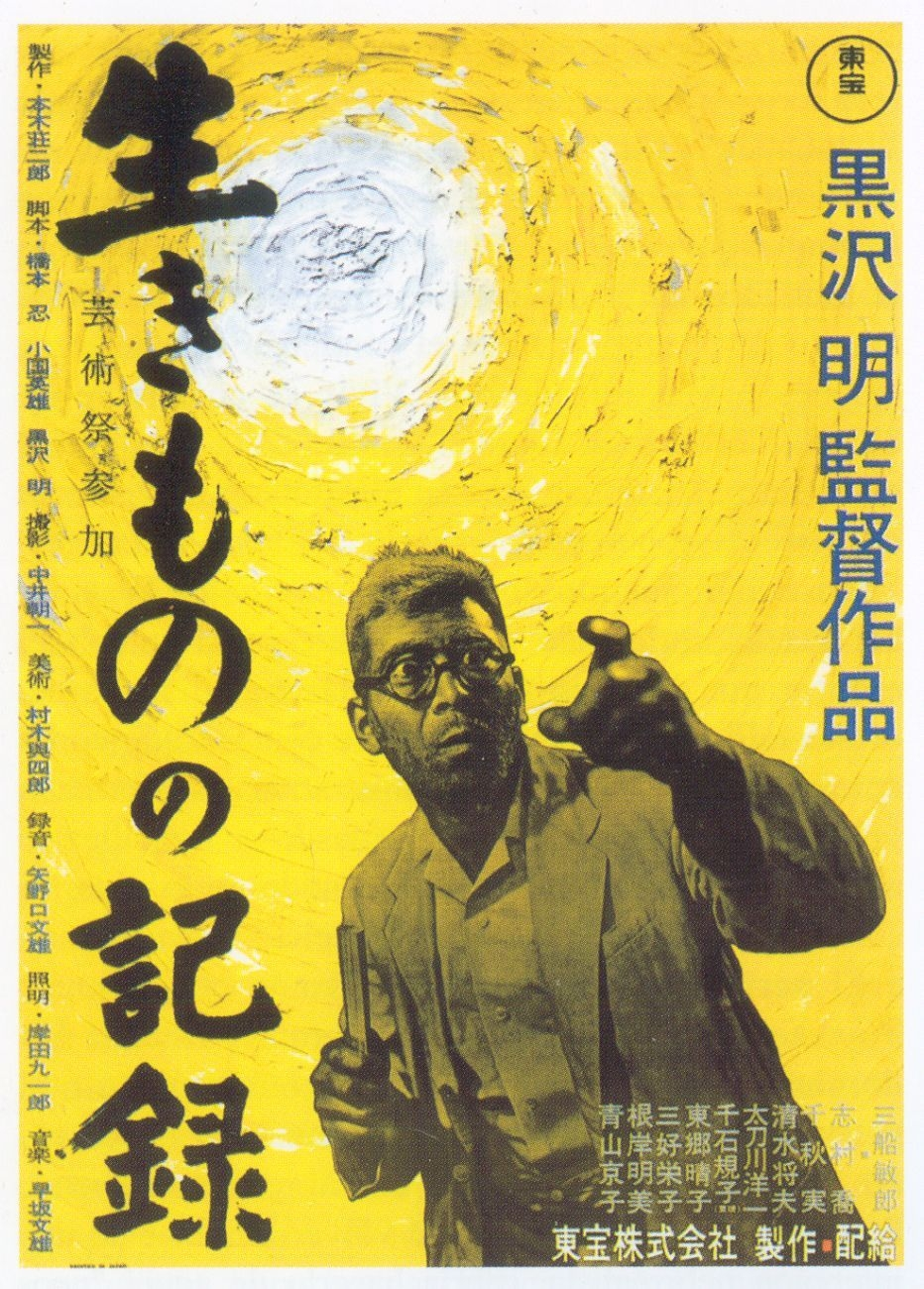 Movie poster for 1955 Japanese movie I Live In Fear (生きものの記録, Ikimono no kiroku) (aka Record of a Living Being, aka What the Birds Knew).